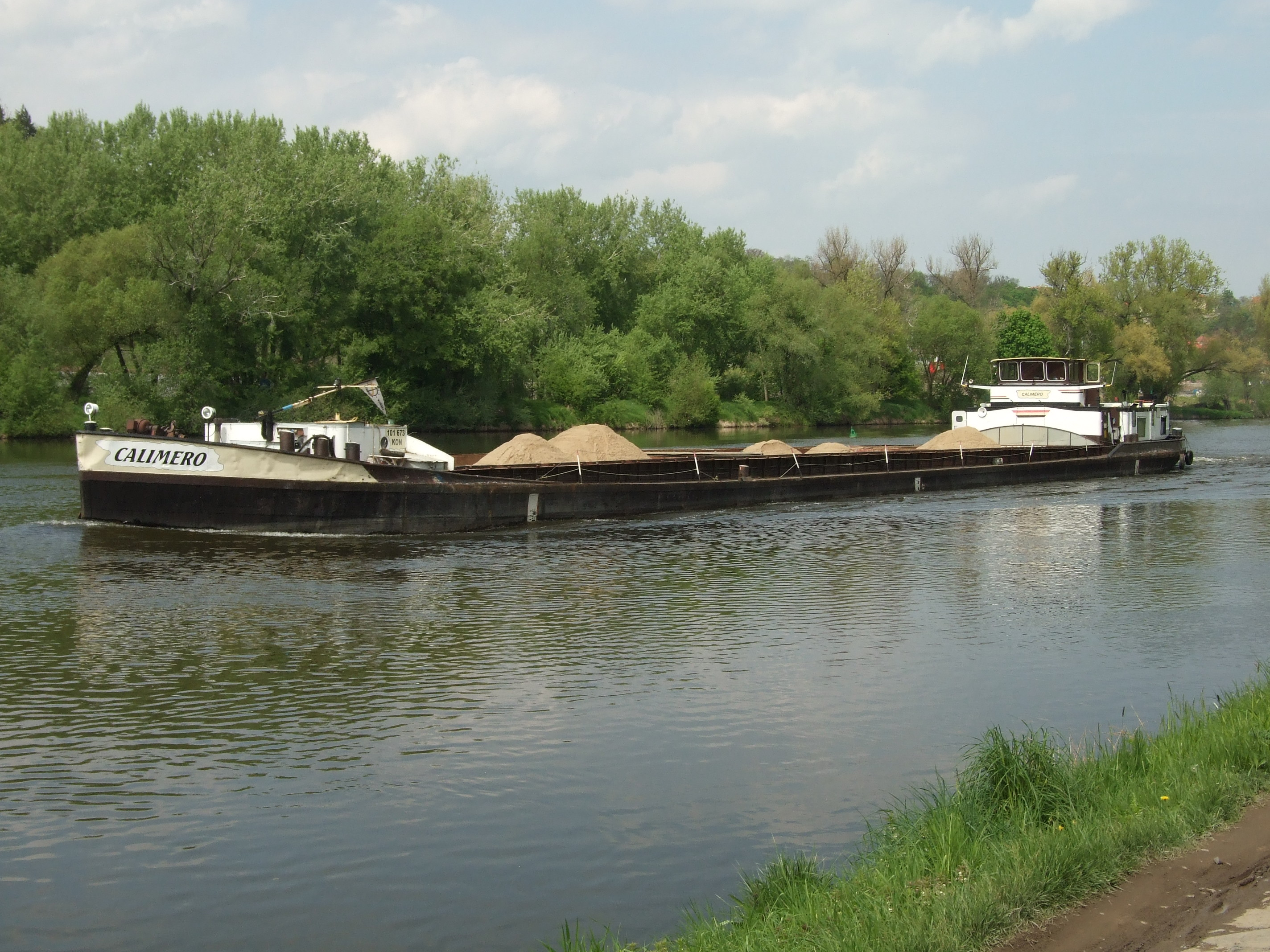 A cargo ship on Vltava River leaving Klecany and heading to Prague, Central Bohemian Region, CZ